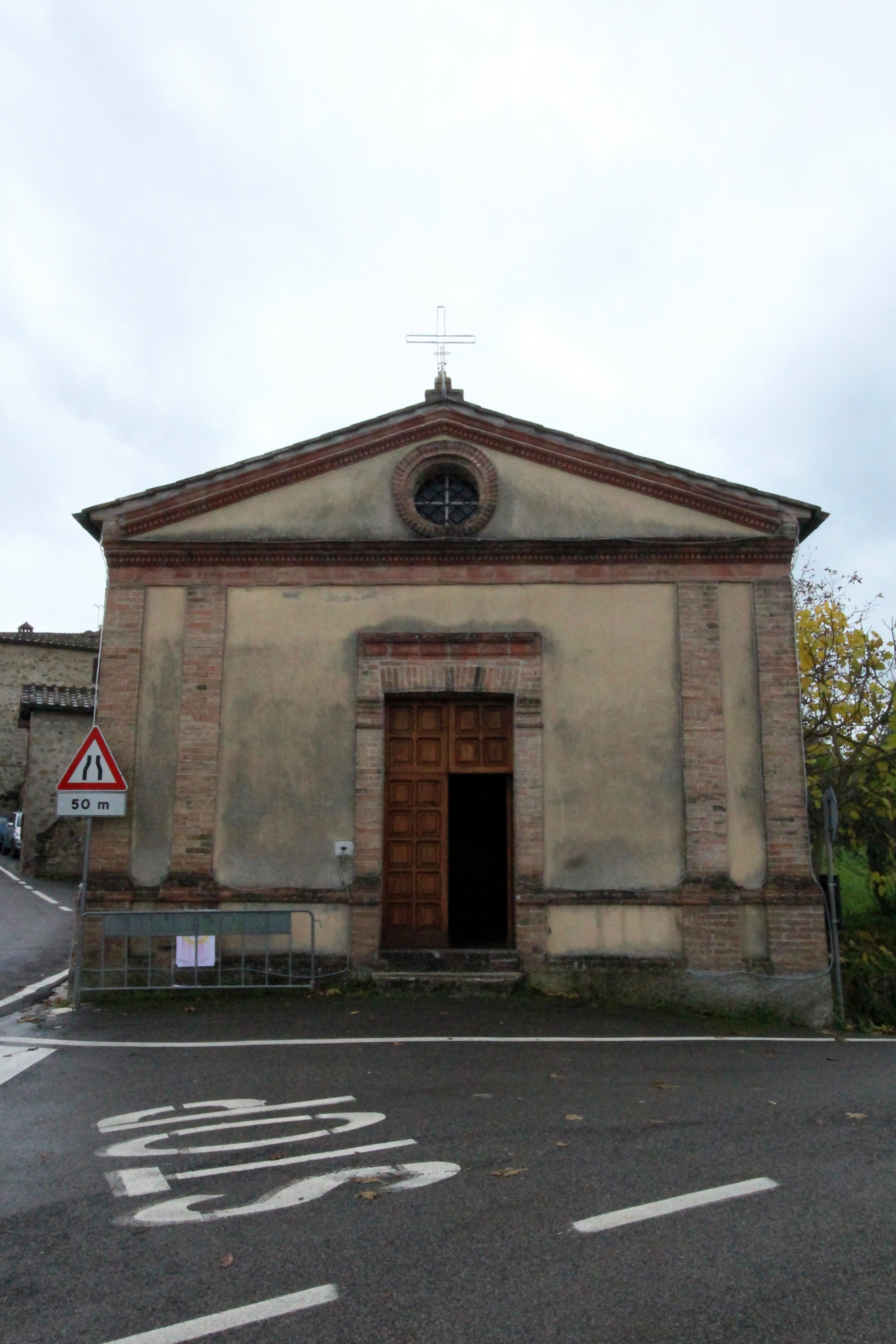 Church/Chapel Santa Maria Assunta a Piantasala, Casciano, hamlet of Murlo, Province of Siena, Tuscany, Italy